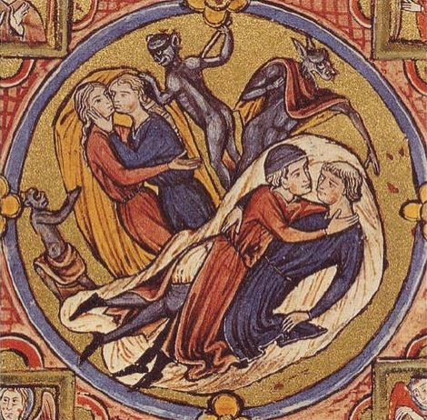 Bible moralisée (1220s); Manuscript (Codex Vindobonensis 2554); Österreichische Nationalbibliothek, Vienna